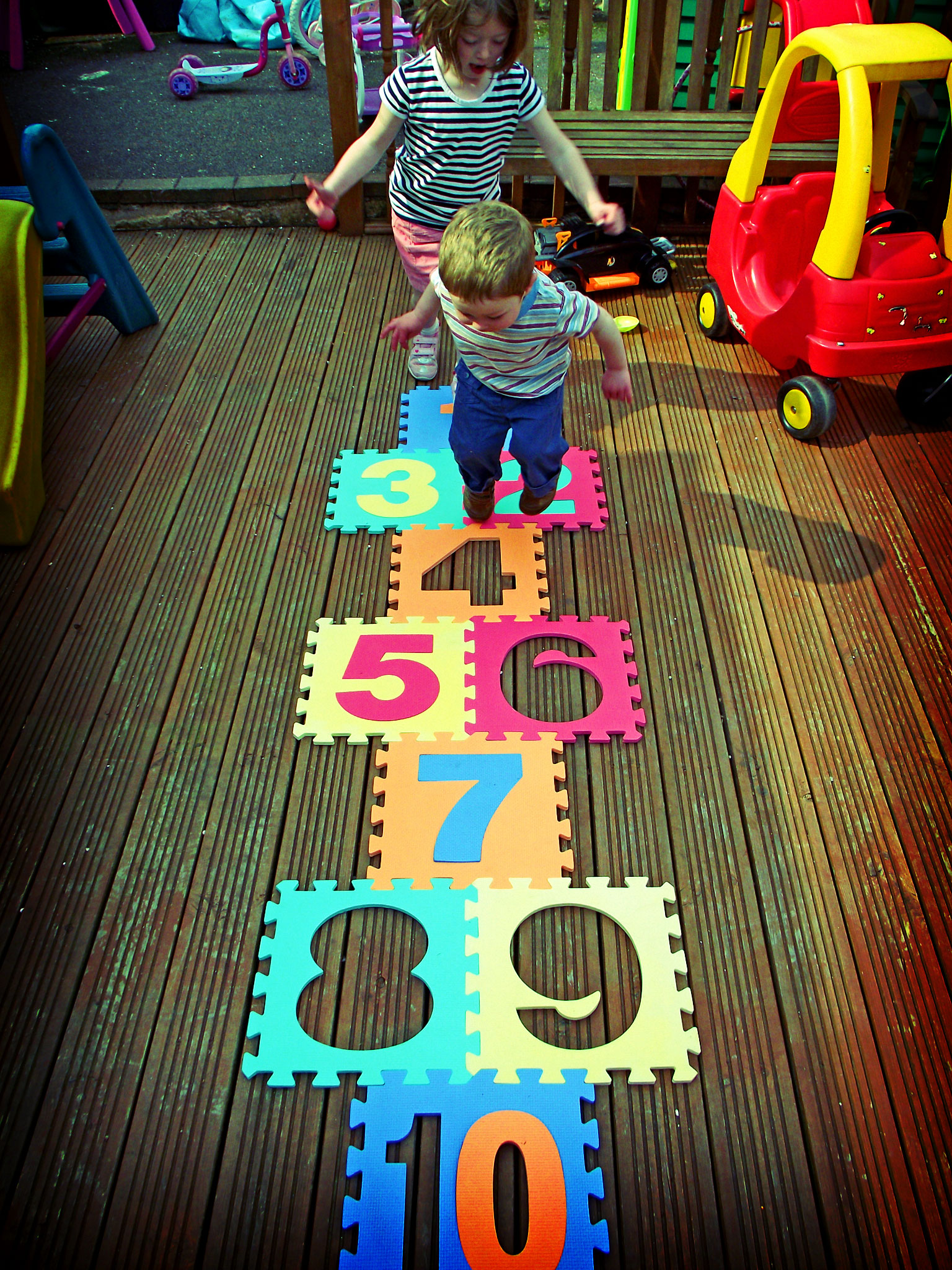 Small children playing hopscotch on a jigsaw foam board.